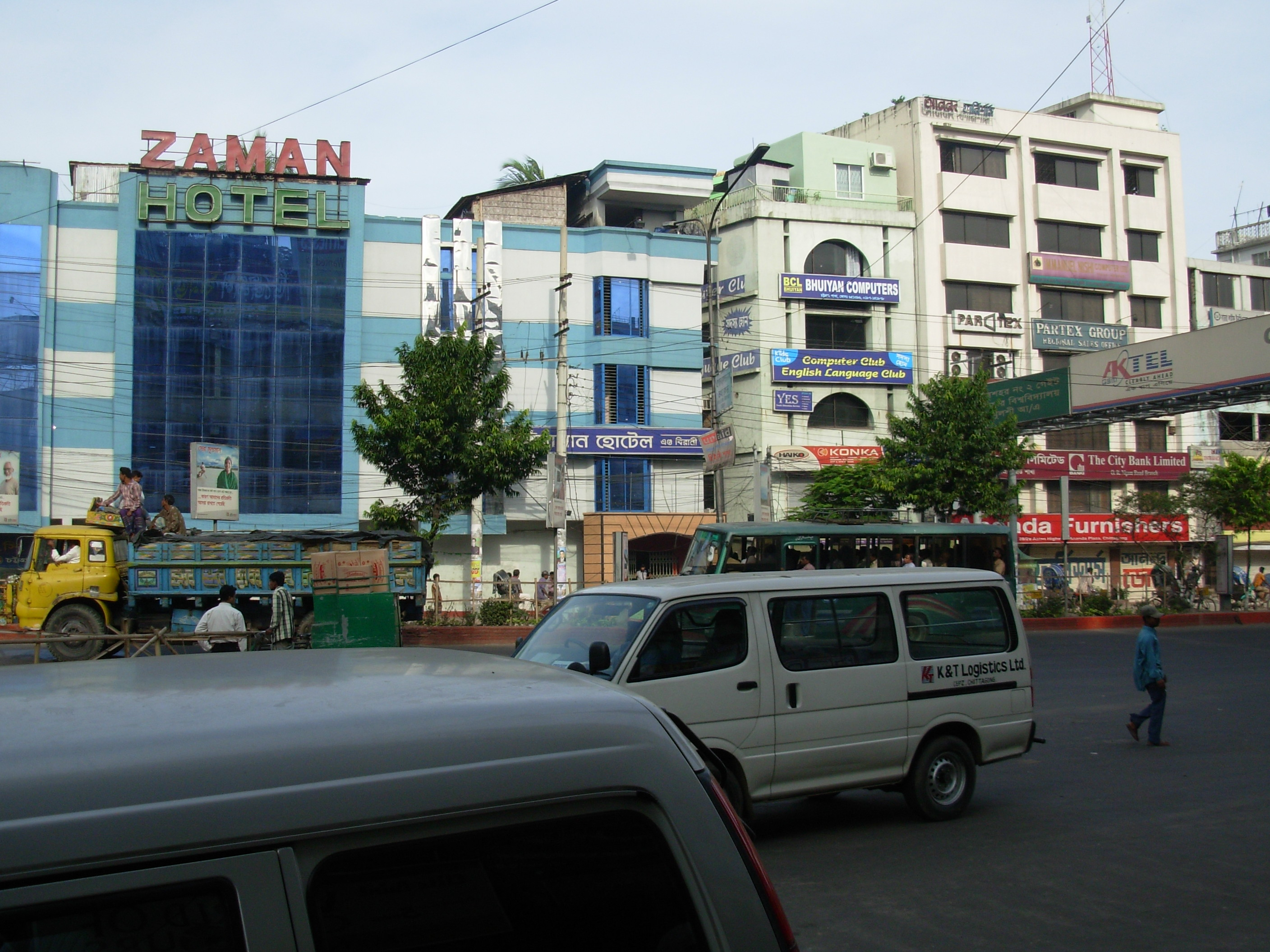 Central plaza,GEC circle in Chittgaong, Bangladesh.